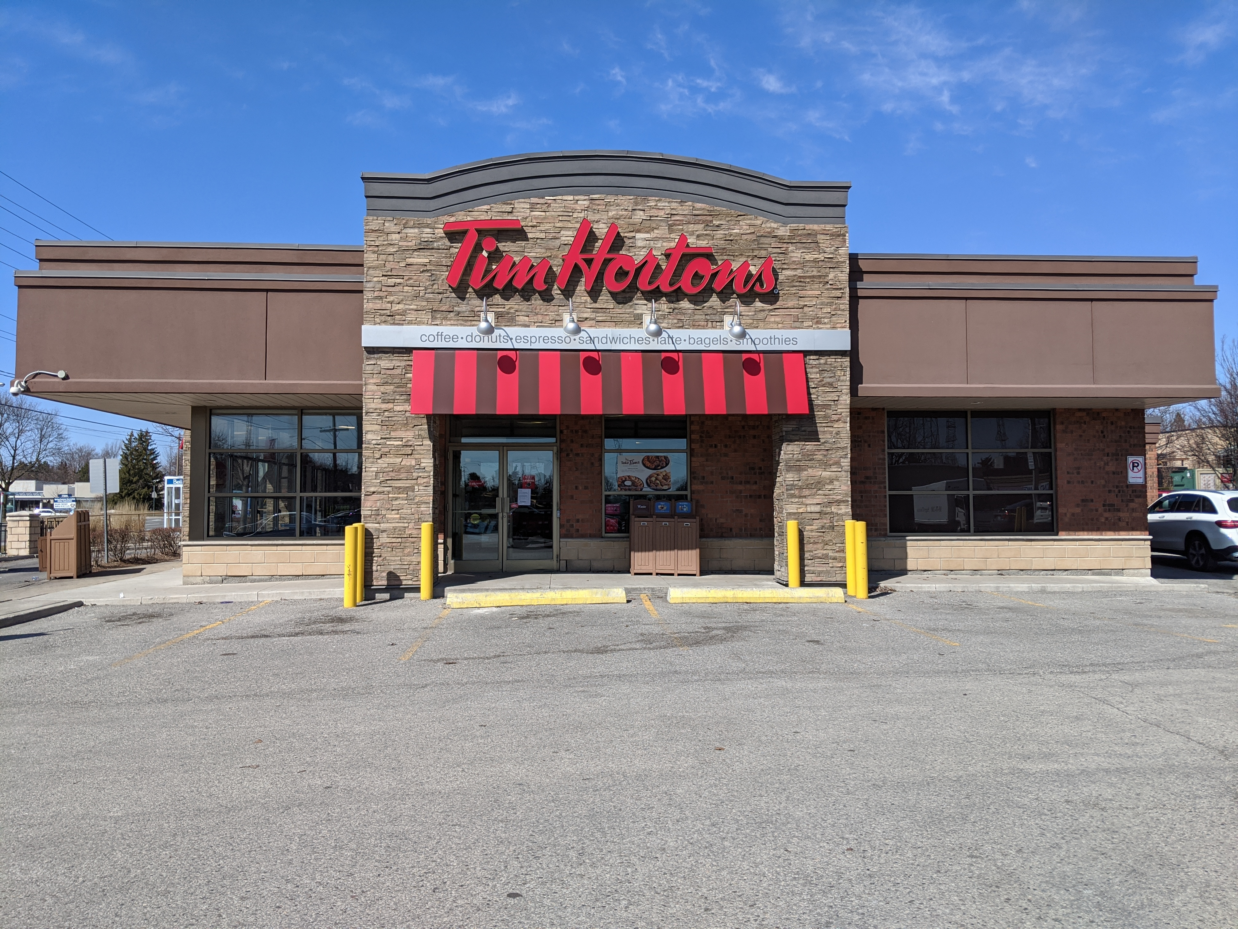 Tim Hortons on a Saturday afternoon during the COVID-19 pandemic.